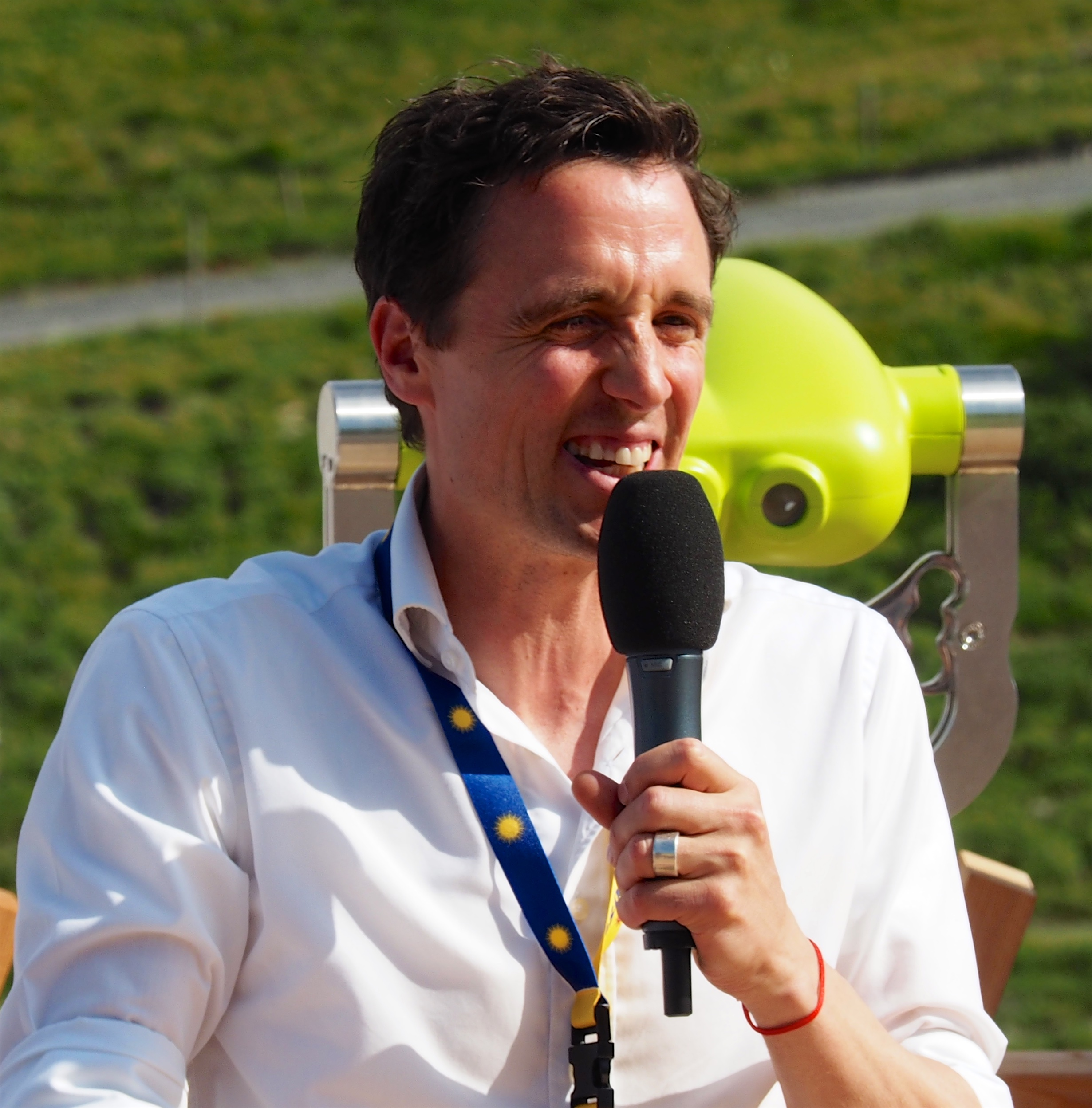 Former Swiss handball player Pascal Jenny at Arosa/Switzerland